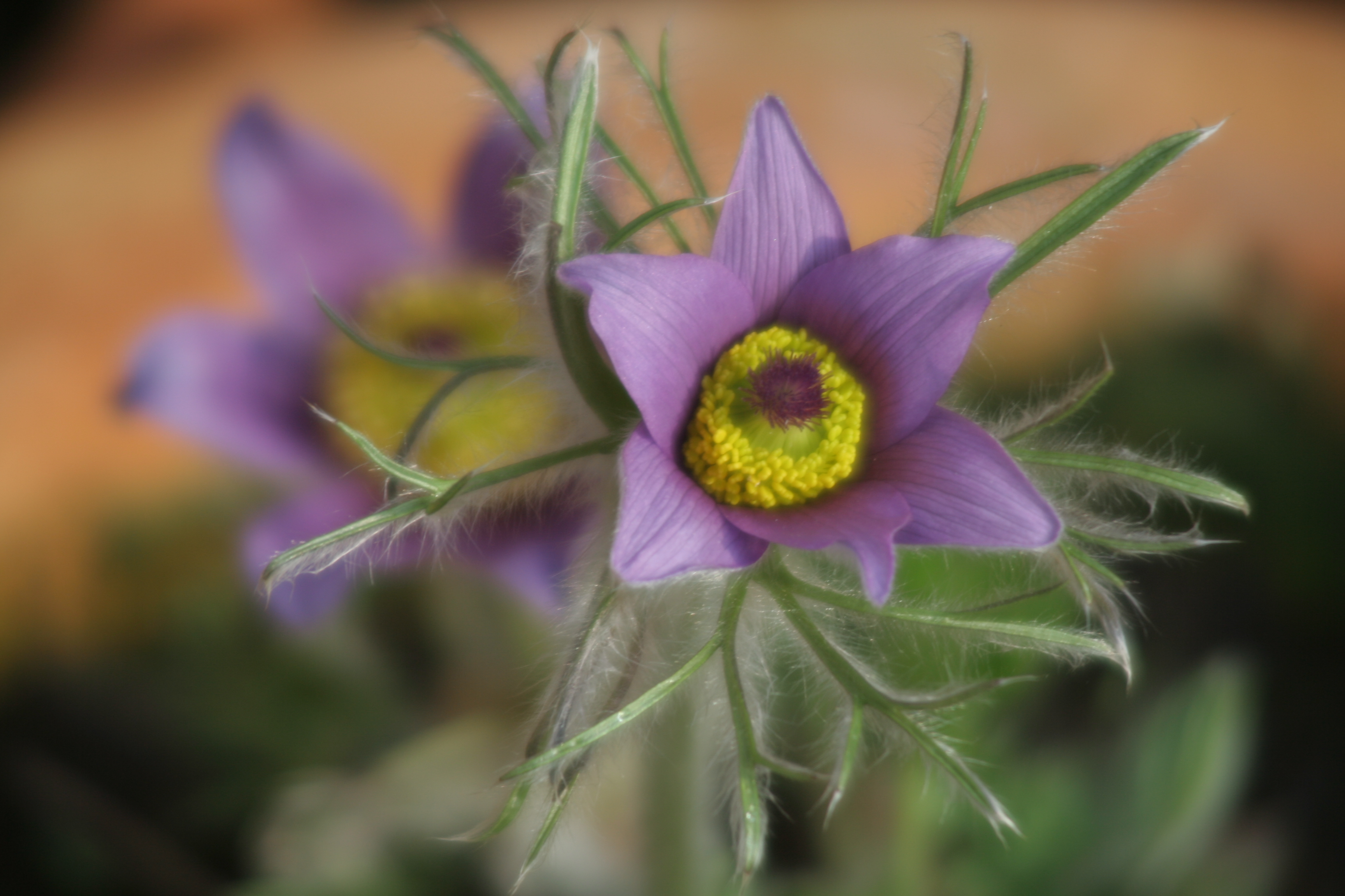 Pulsatilla